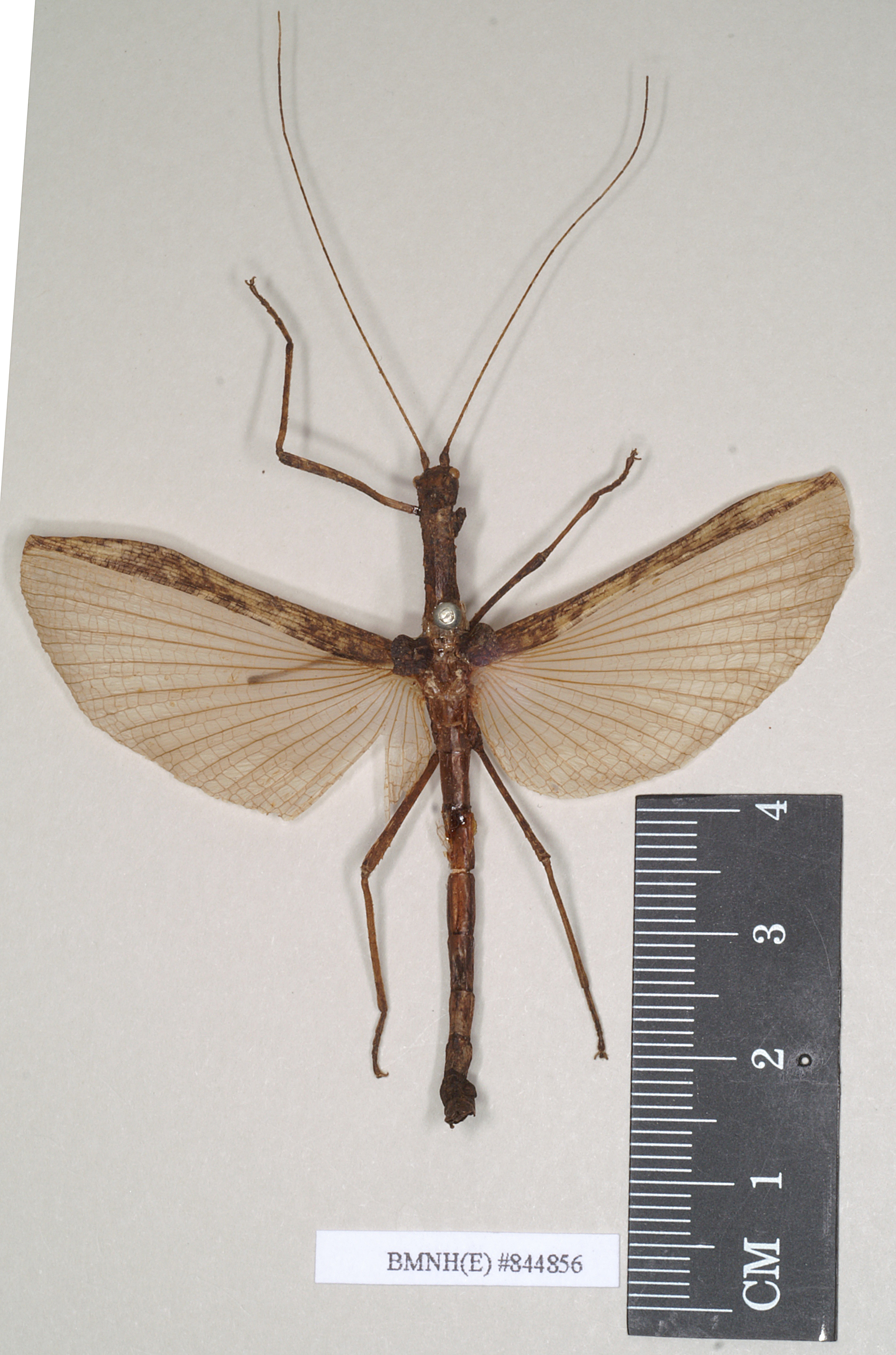 Sosibia passalus (Westwood, 1859), male (holotype). Natural History Museum, London.